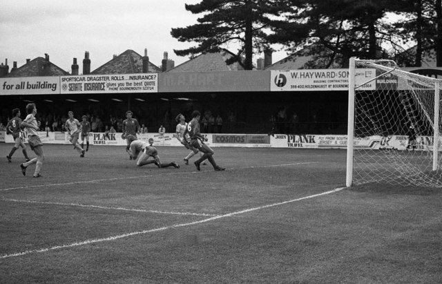 AFC Bournemouth, Dean Court, Boscombe